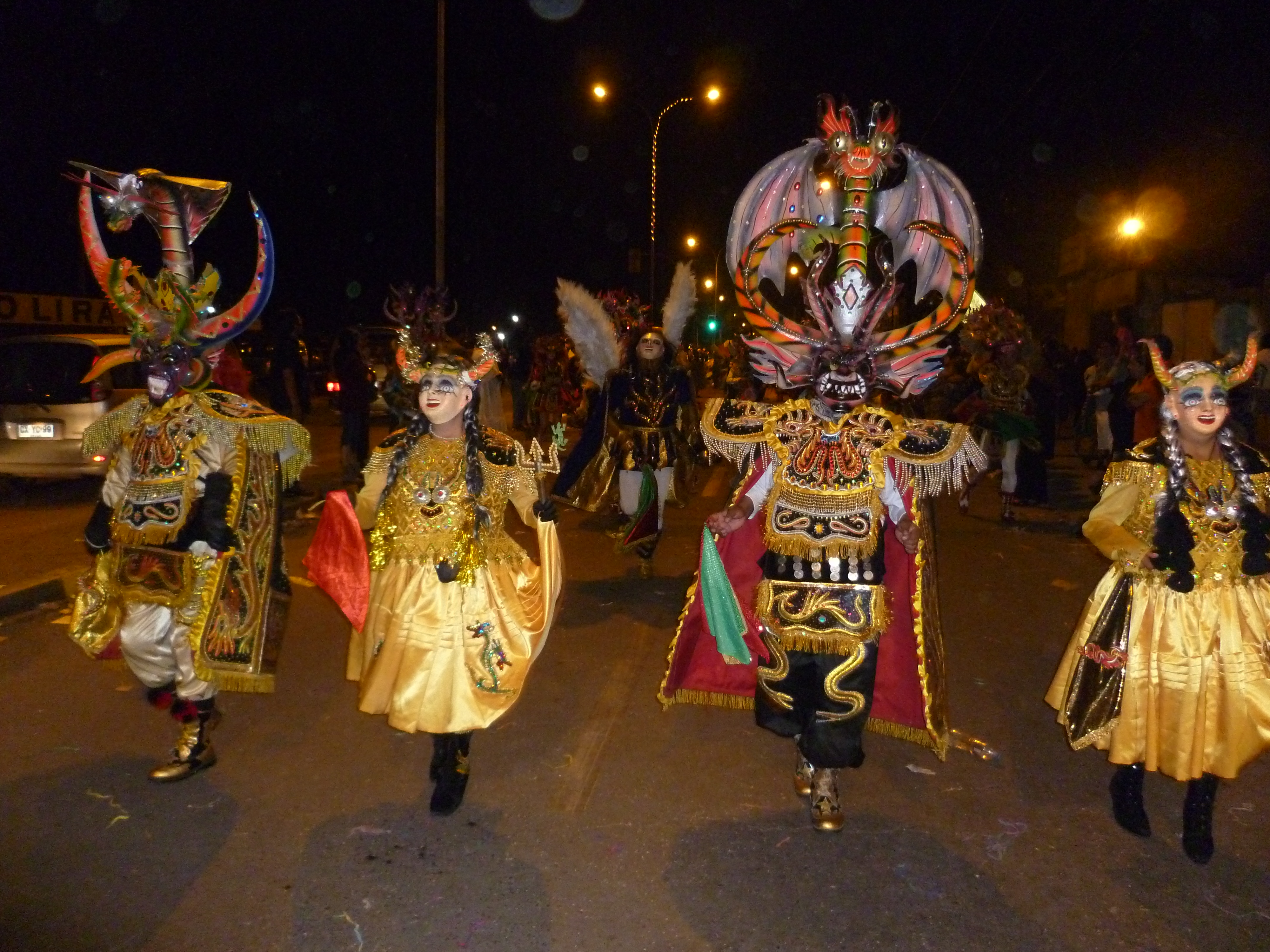 Carnaval Andino con la Fuerza del Sol Inti Ch'amampi 2012 Arica, Chile